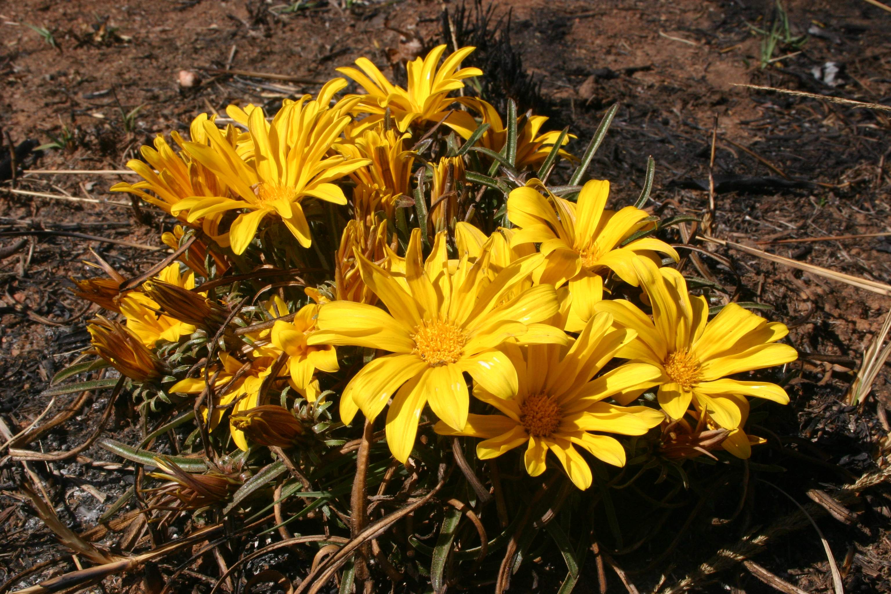 Gazania krebsiana Less. near Rietfontein Hardware, Honeydew, Johannesburg